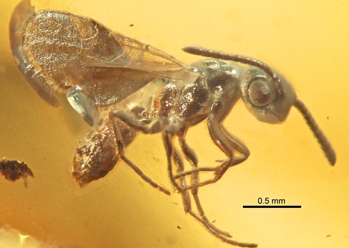 Profile view of the Proceratium eocenicum" paratype male. Specimen GPIH, no. 4507; Geological-Paleontological Institute and Museum, University of Hamburg Formerly Specimen CGC no.3306; Carsten Gröhn private collection Baltic Amber, Middle Eocene; Samland Peninsula?, Baltic Region, Europe.